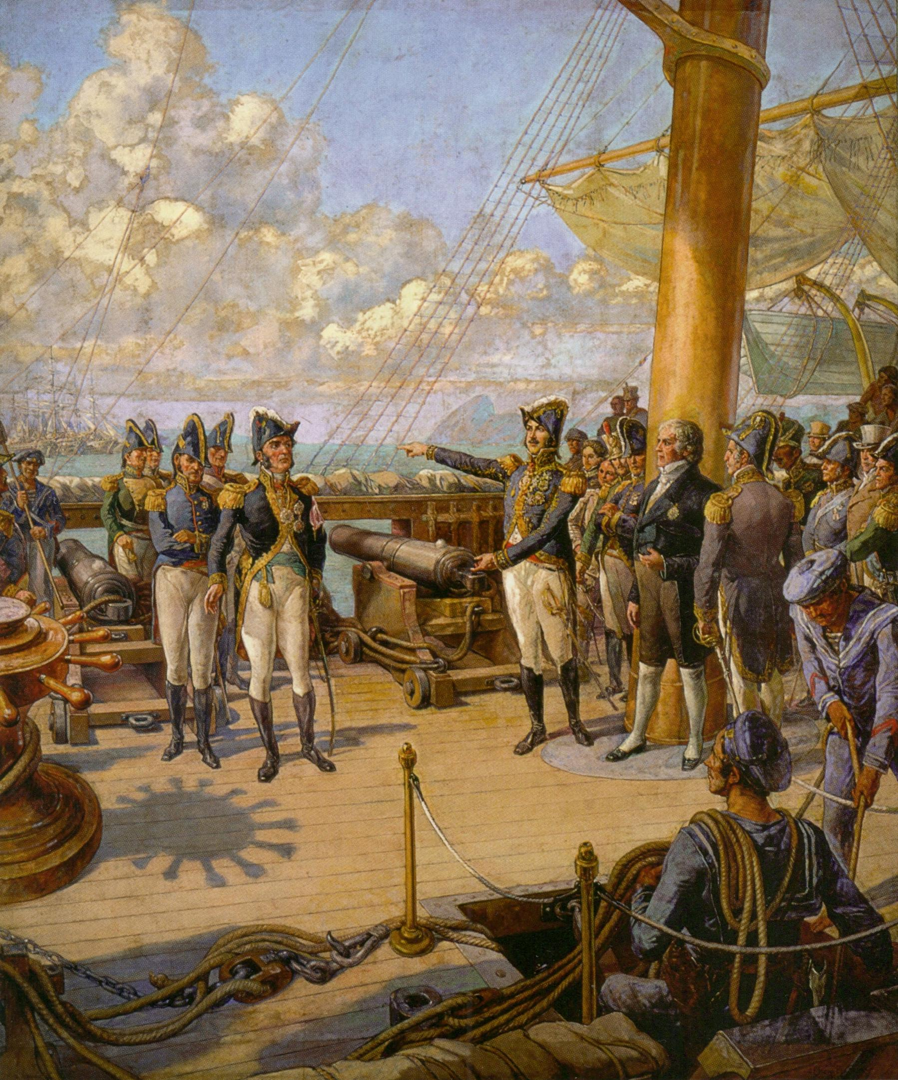 On board the frigate União (Union) Emperor Pedro I of Brazil (right) order Portuguese office Jorge Avilez (left) to return to Portugal after his failed rebellion on February 8, 1822. José Bonifácio can be seen next to Pedro I.